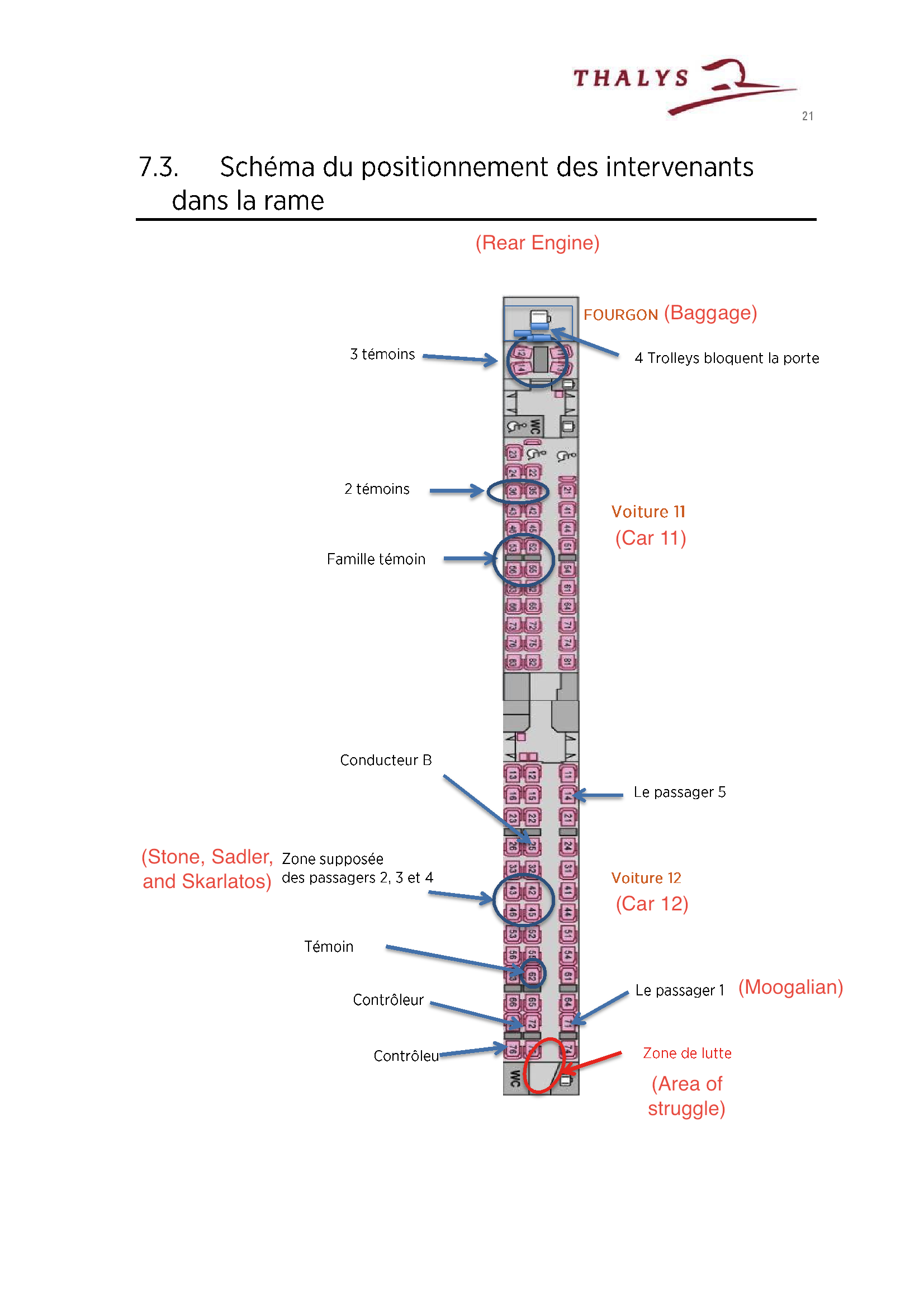 Diagram of attack from Thalys internal report (edited image to correct error).